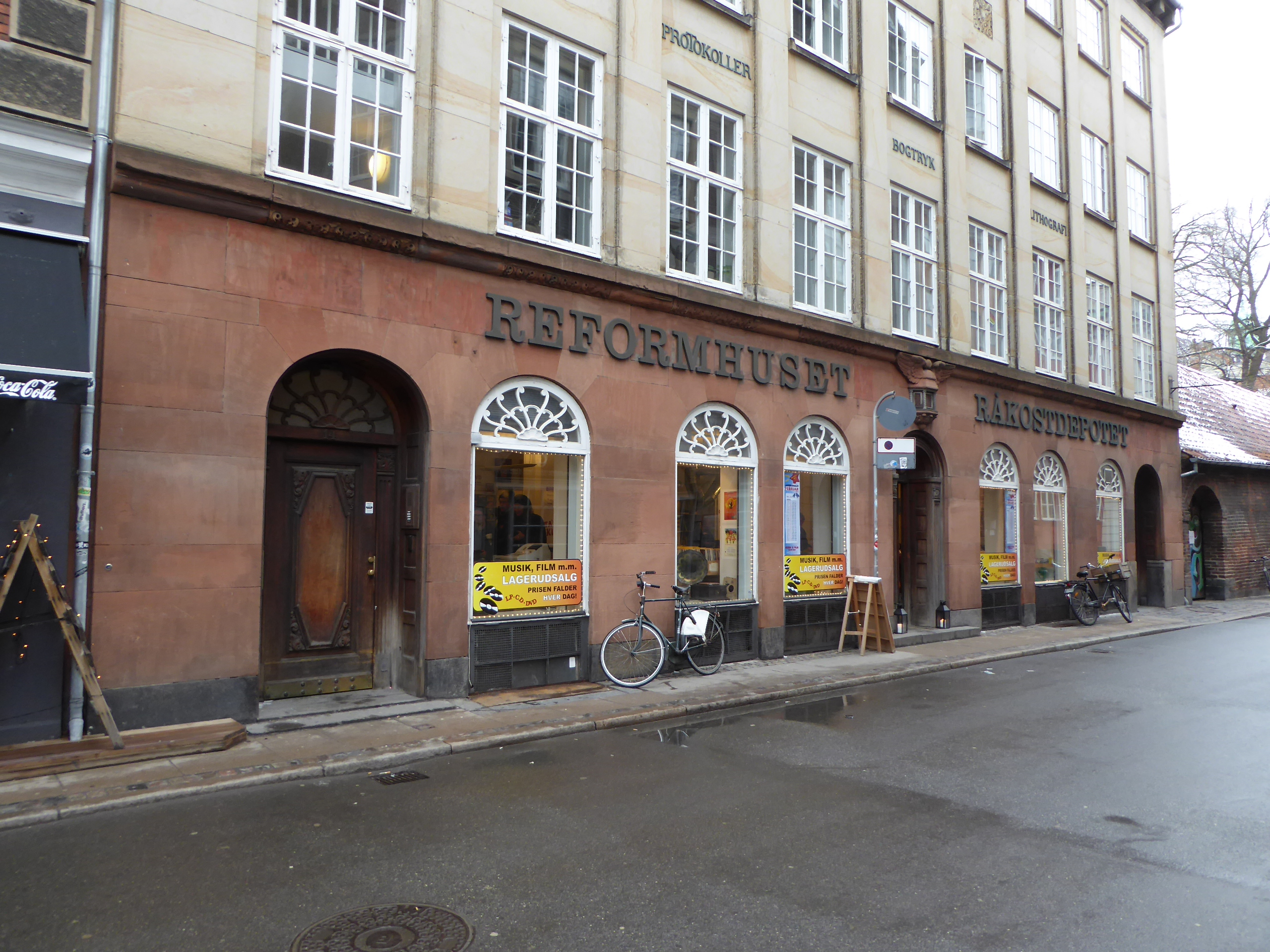 Shop at Skindergade in Indre By in Copenhagen used by the company Accord to sell used CD and DVD by the Dutch auction princip with falling prices each day.